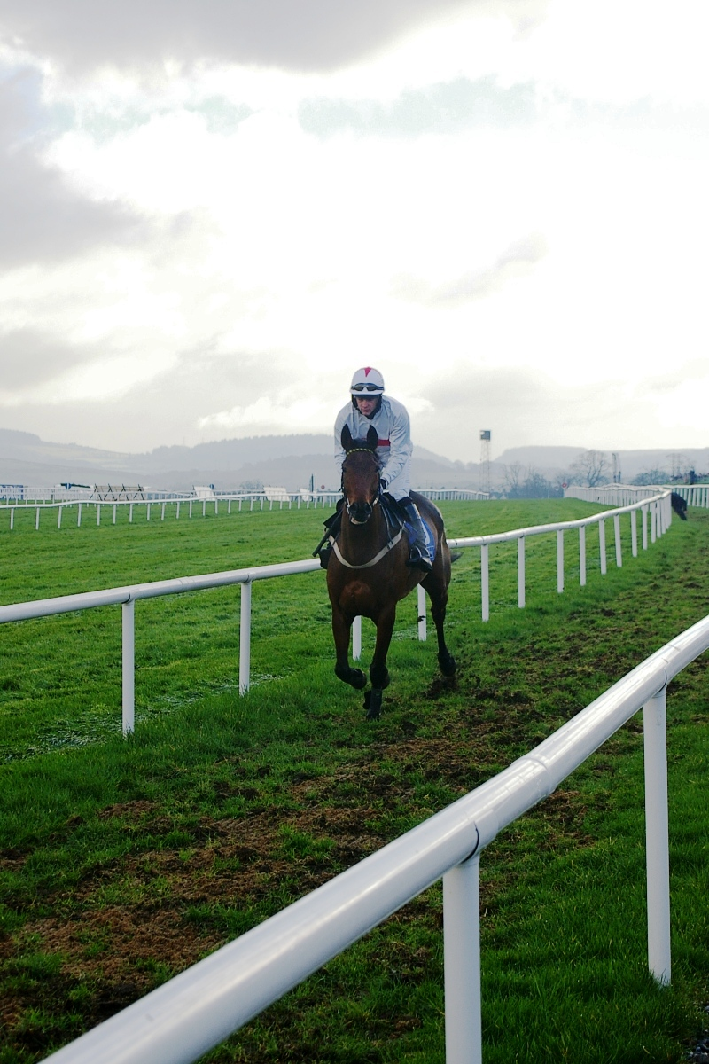 Description: The Leopardstown Racecourse south of Dublin in Ireland. Heading for the start.